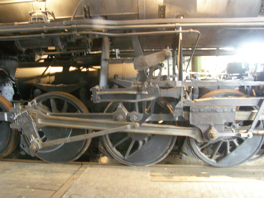 SAL "Russian Decapod" #544, showing the large gap between the boiler and driving wheels for ease of maintenance, typical of locomotives designed for Russia.